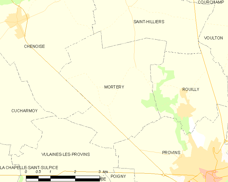 Map of French municipality Mortery